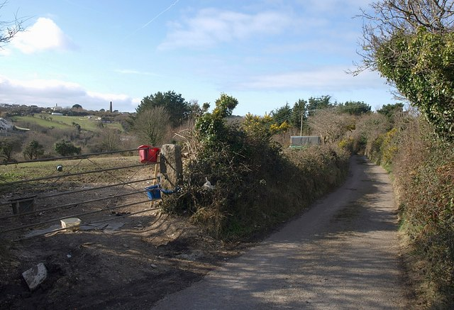 Lane to Tolskithy. In fact the lane is a dead end, but is continued by footpaths. On the left across the field is the valley shown in 85177.